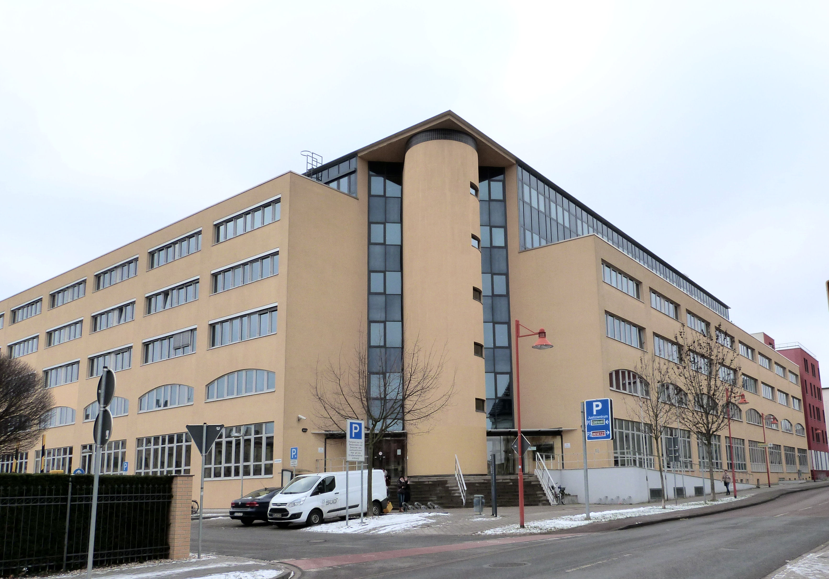 Justice center Halle, main entrance Thüringer Strasse 16